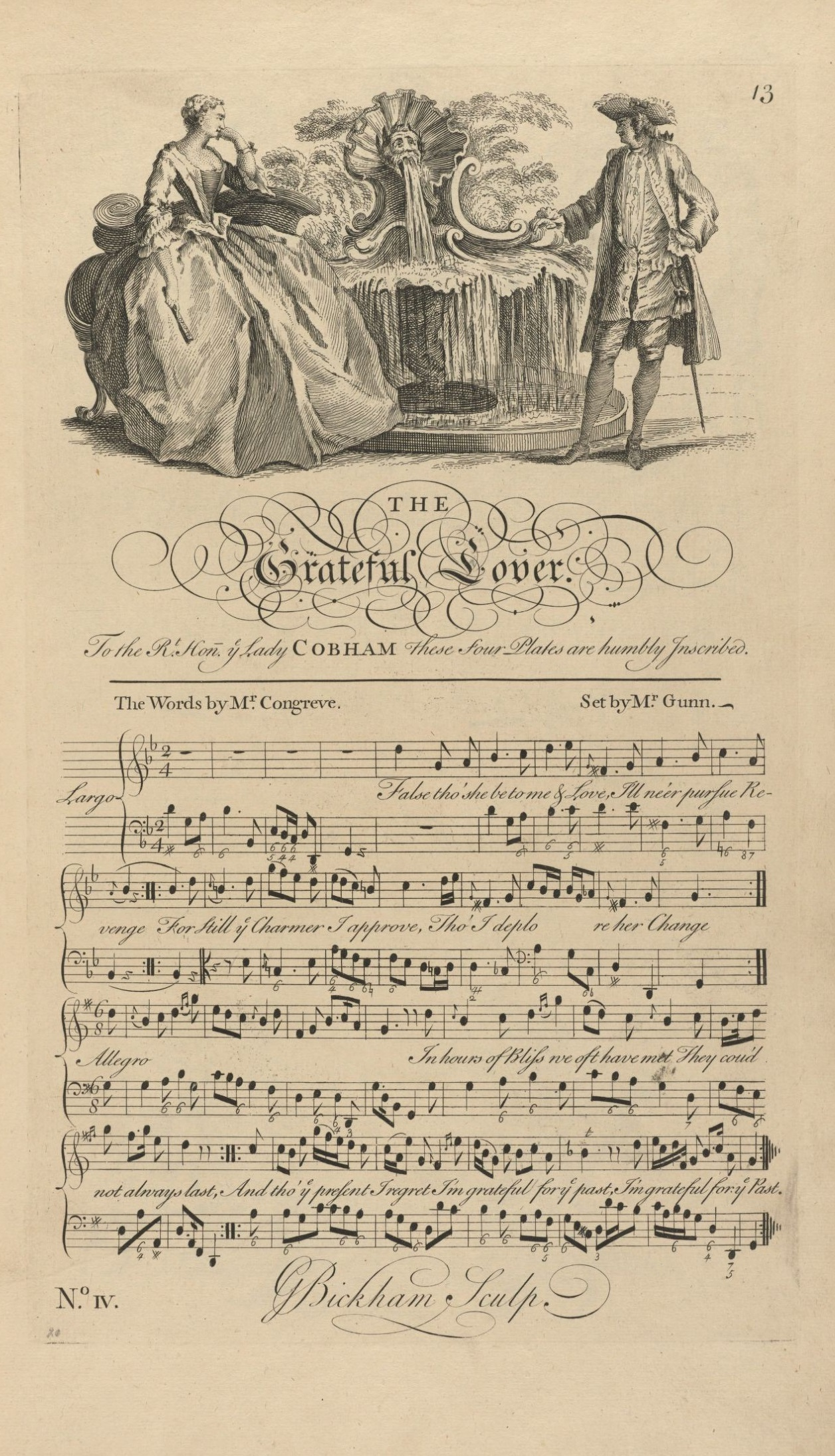 Sheet music: "The Grateful Lover" by Barnabas Gunn from Bickham’s Musical Entertainer, 1737, with engraving by George Bickham the Younger. Typ 705.37.210, Houghton Library, Harvard University